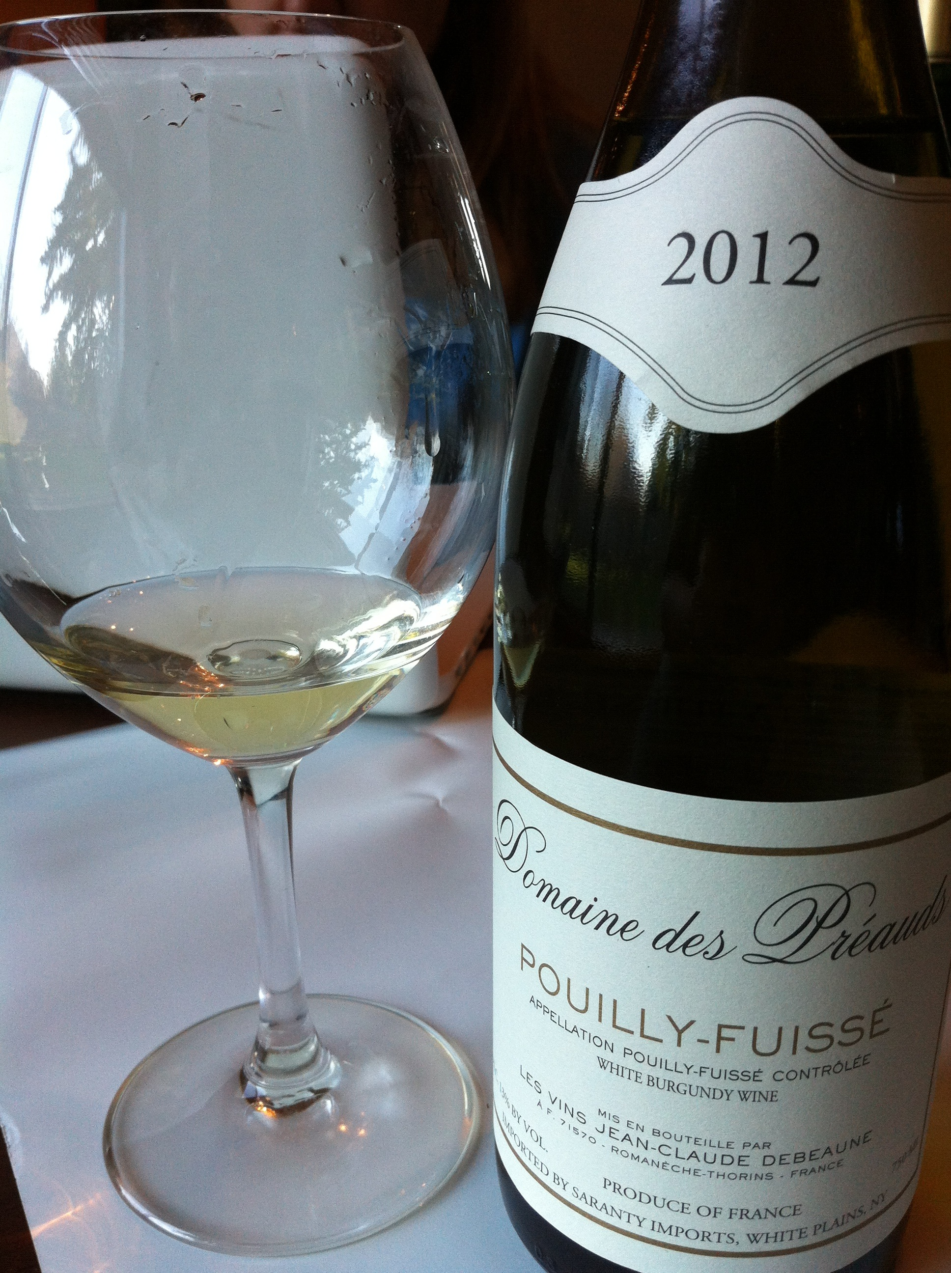 French Chardonnay from the Pouilly Fuisse region in the Maconais